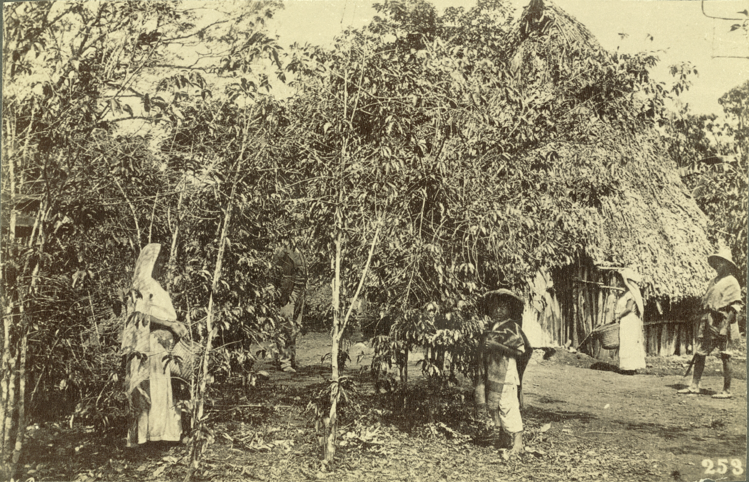 Collection: A. D. White Architectural Photographs, Cornell University Library Accession Number: 15/5/3090.00699 Title: Coffee Plantation, State of Veracruz Publisher: Claudio Pellandini Photograph date: ca. 1865-ca. 1895 Location: North and Central America: Mexico; Veracruz Materials: albumen print Image: 4 7/8 x 7 1/2 in.; 12.3825 x 19.05 cm Provenance: Schuchardt Collection Persistent URI: There are no known U.S. copyright restrictions on this image. The digital file is owned by the Cornell University Library which is making it freely available with the request that, when possible, the Library be credited as its source. We had some help with the geocoding from